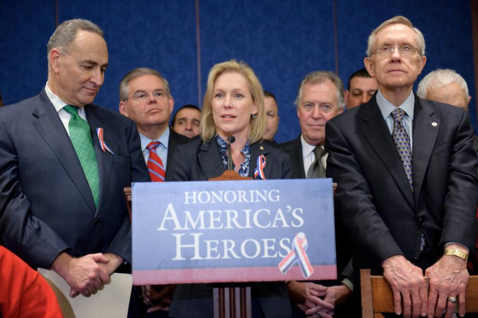 Gillibrand and Team Announce Senate Passage of 9/11 Health